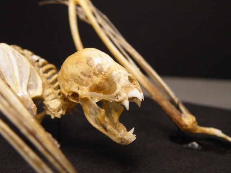 Vampire bat (Desmodus rotundus) skeleton, mounted by me, showing the unique dentition.